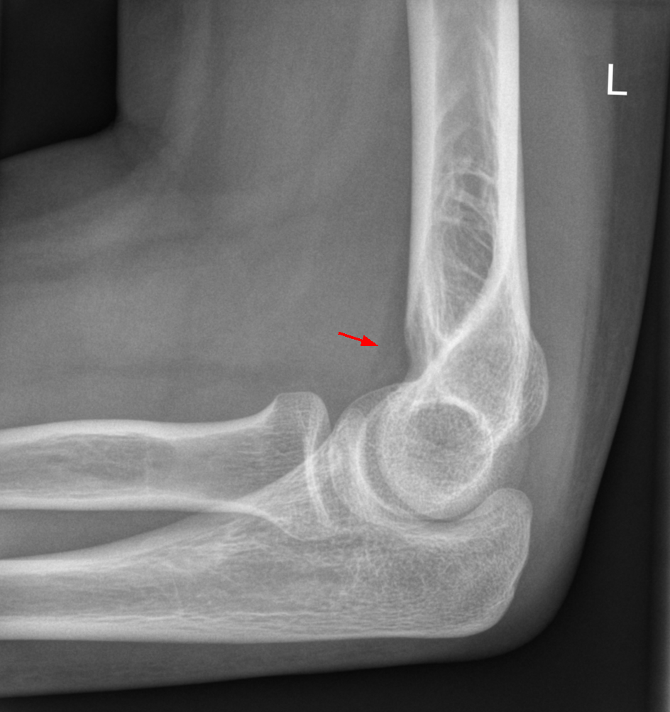 Normal fat pad sign.